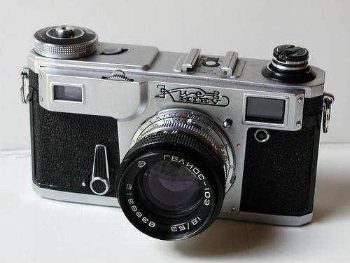 Kiev 4AM with Helios 1:1.8/53 mm lens